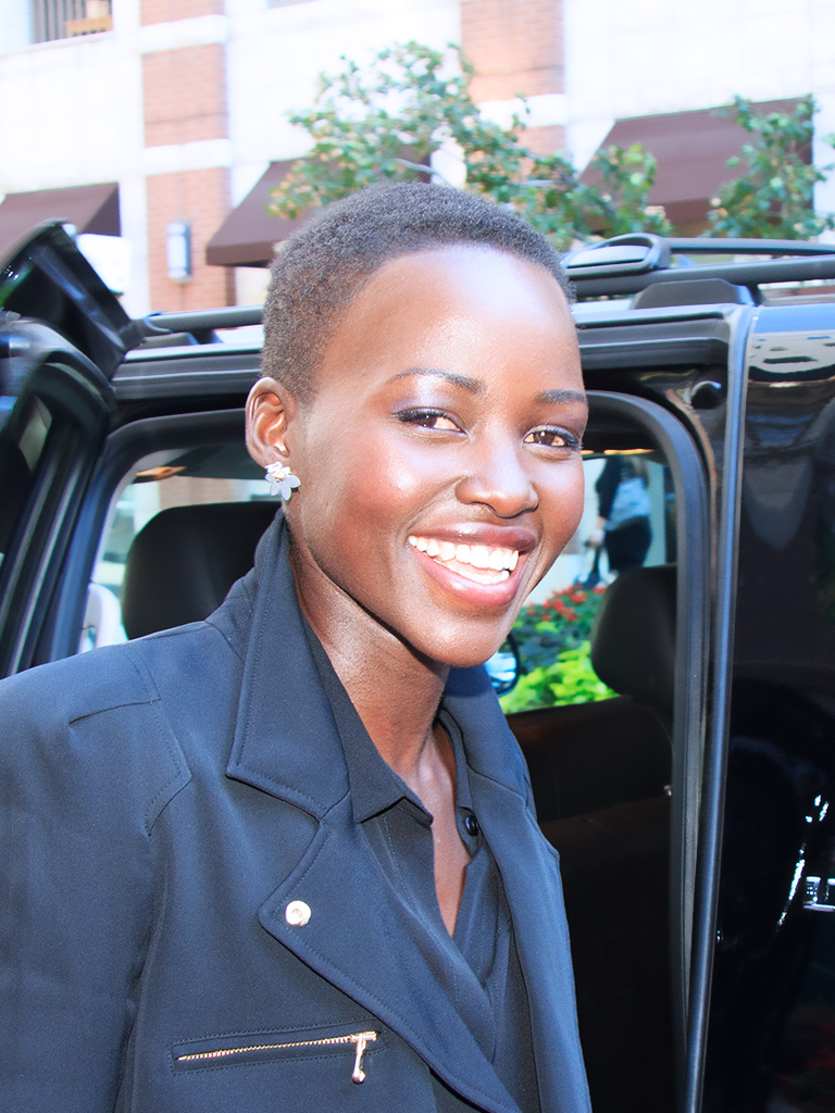 Lupita Nyong'o at the 2013 Toronto International Film Festival.